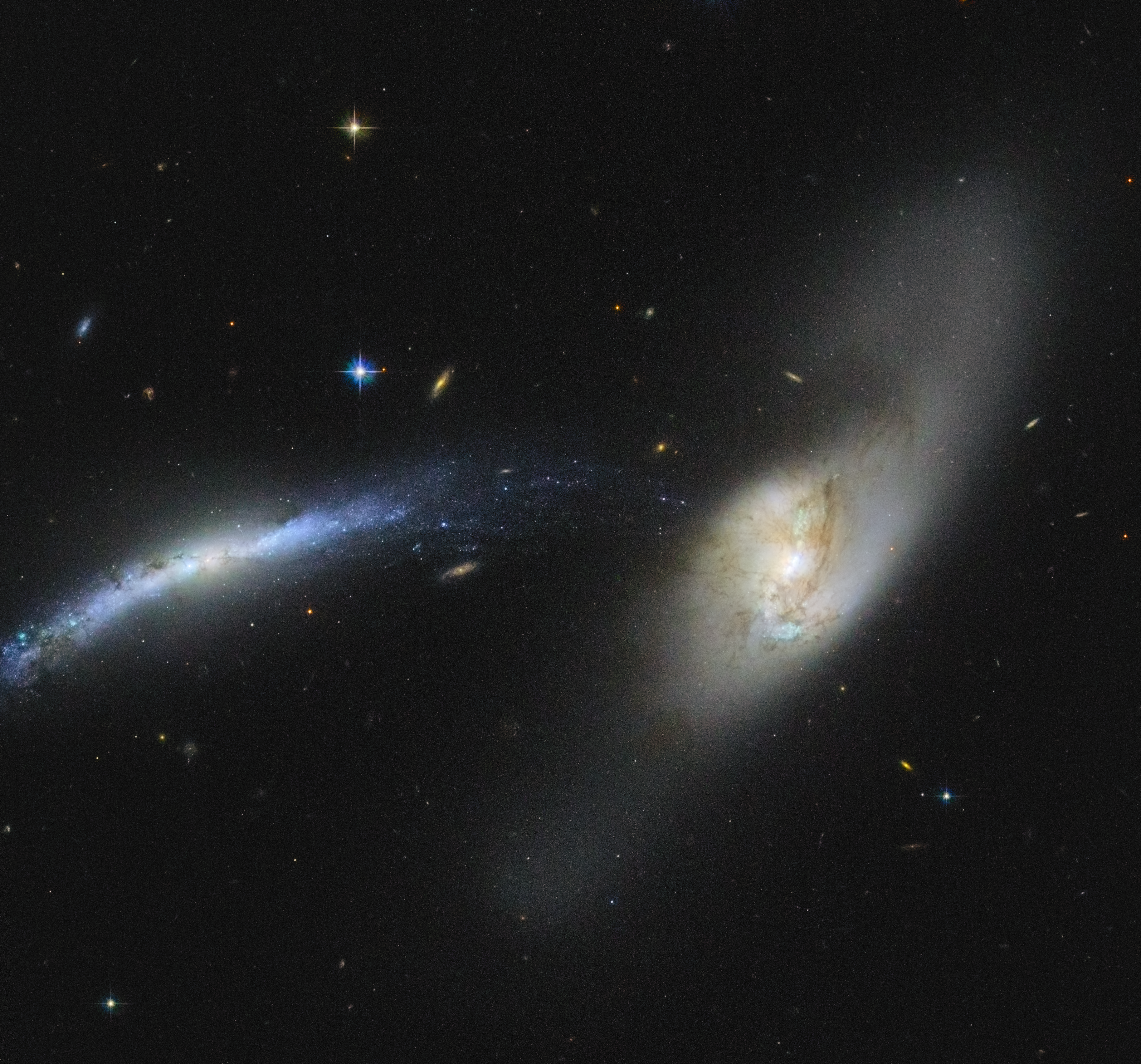 An interacting pair of galaxies also known as NGC 2799 (left) & NGC 2798 (right). NGC 2799 appears warped, and seems to be getting ripped apart. Rain comes to mind when looking at this, like the stars and gas of the blue galaxy are mere particles condensing and falling into the red galaxy like rain. It's probably nothing like rain, though. Color comes from SDSS this time, which is always a pleasure. As far as surveys go, it's very easy to work with. Data for this field can be found here: NASA/ESA/SDSS/Judy Schmidt Establishing HST's Low Redshift Archive of Interacting Systems Luminosity: ACS/WFC F606W Red: SDSS i Green: SDSS r Blue: SDSS g North is 13.50° clockwise from up.